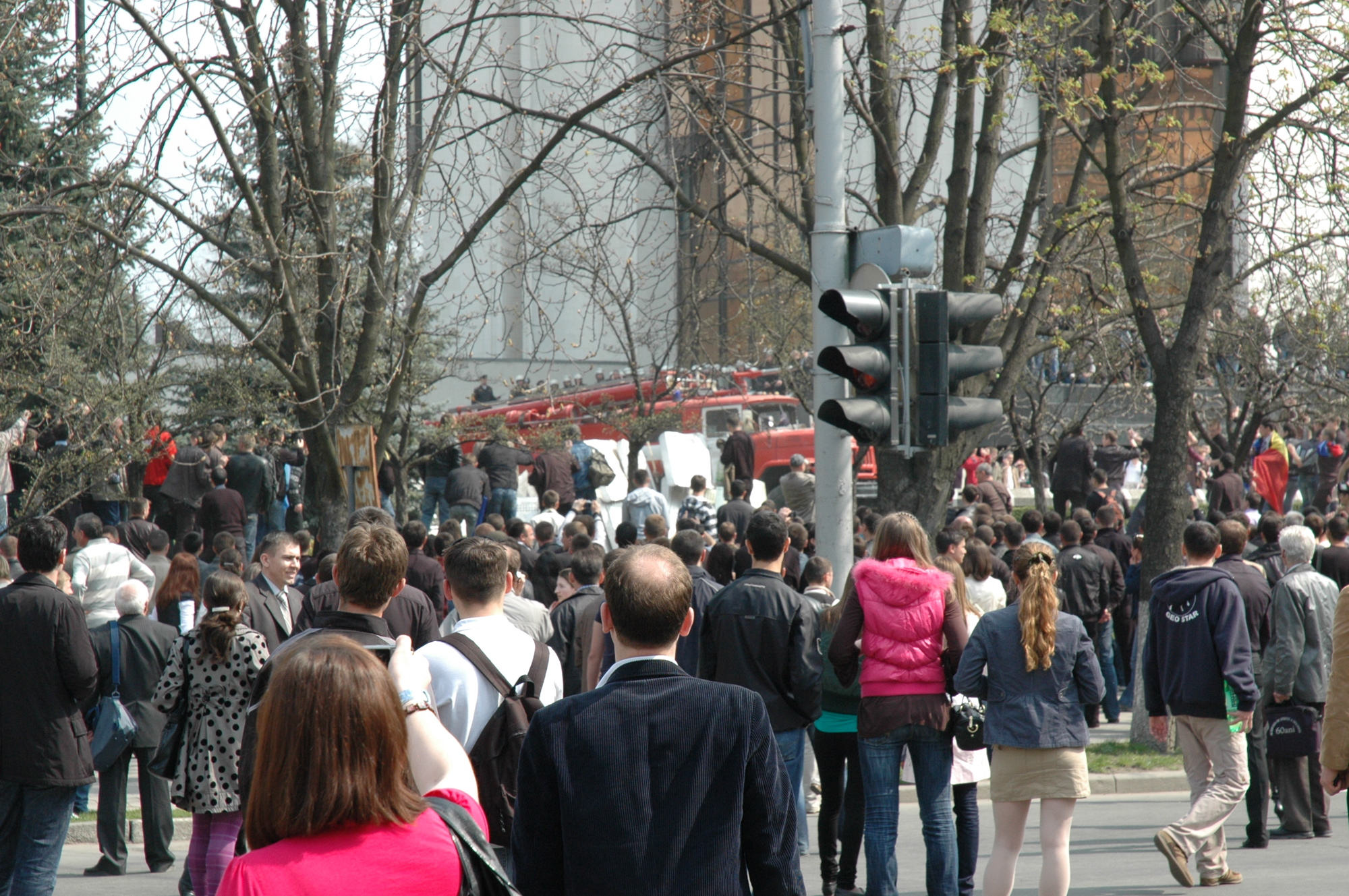 Protesters attack the Presidential Palace in Chisinau